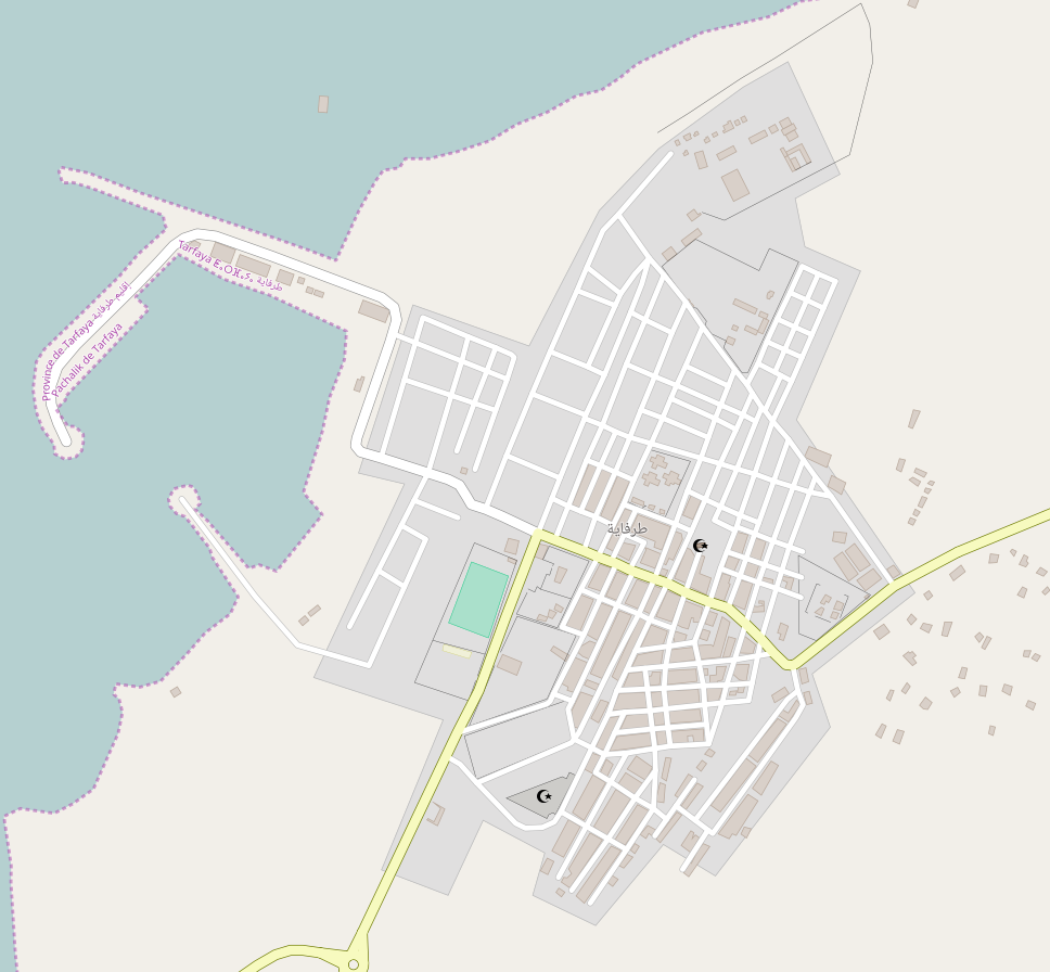 Map of Tarfaya